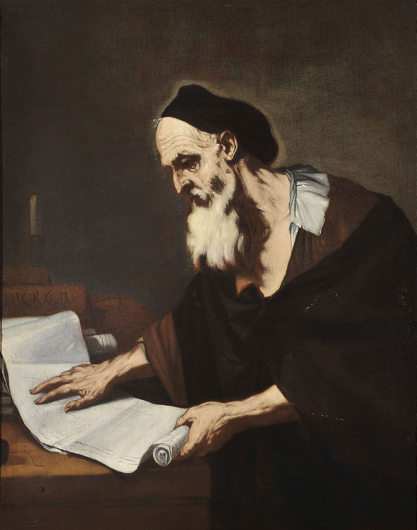 Philosopher